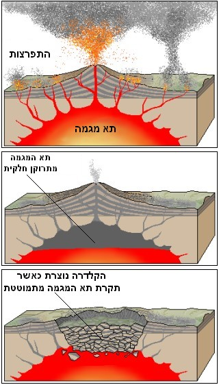 Formation of a caldera, heb.